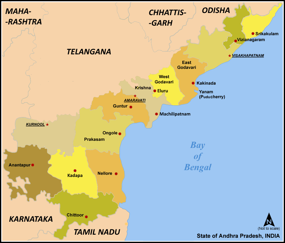 Map of Andhra Pradesh, India with district boundaries - add districts shaded.